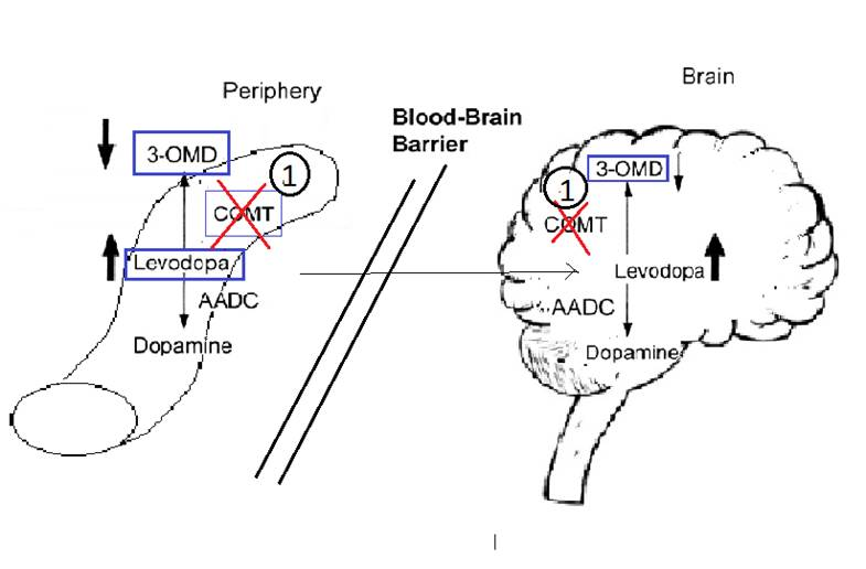 Action of entacapone (1) inhibiting the activity of COMT modifying the levels of L-Dopa and 3-OMD in periphery.